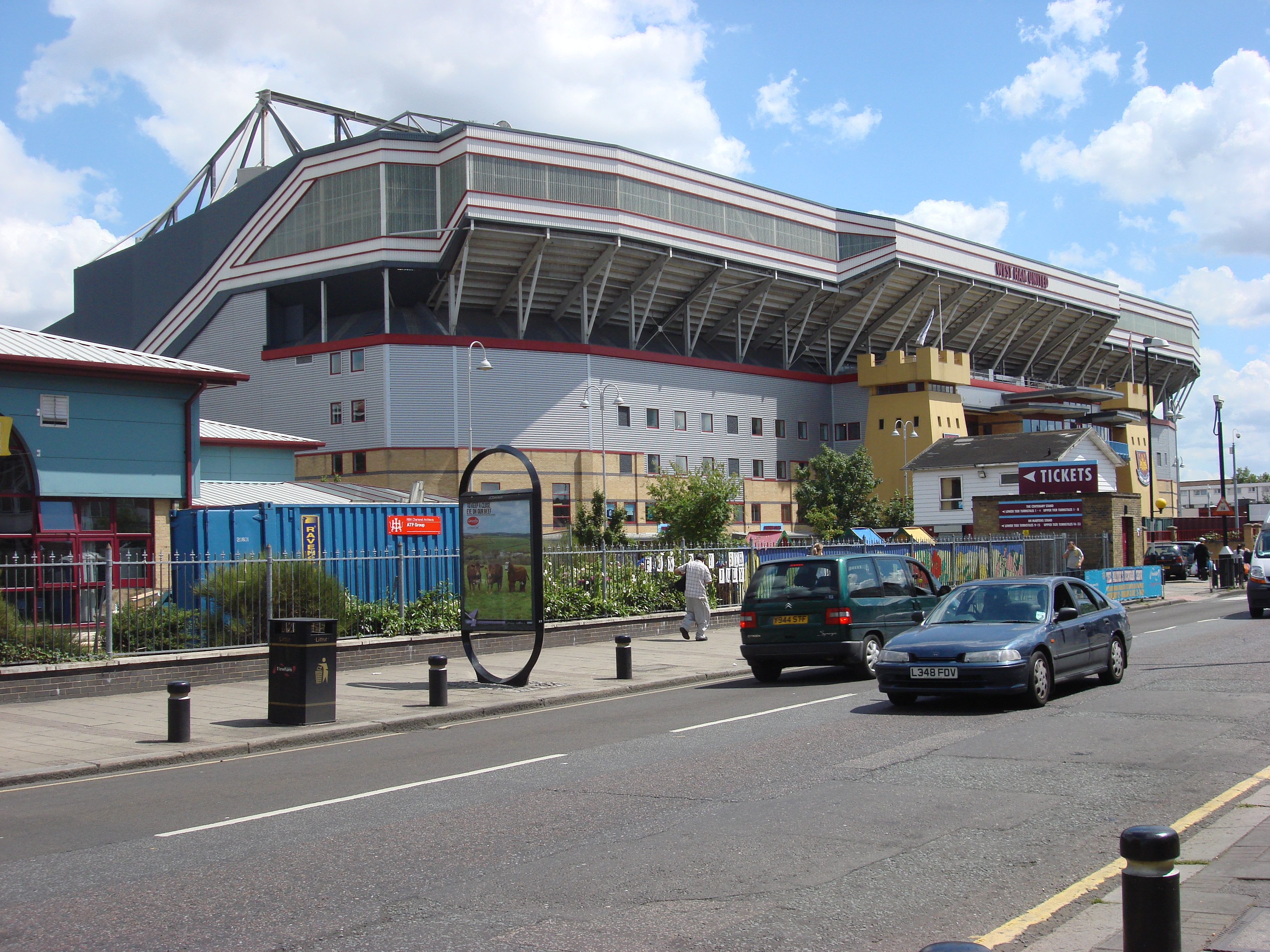 West Ham United's Dr Marten's stand, Boleyn Ground, Upton Park, London, taken from Green Street.